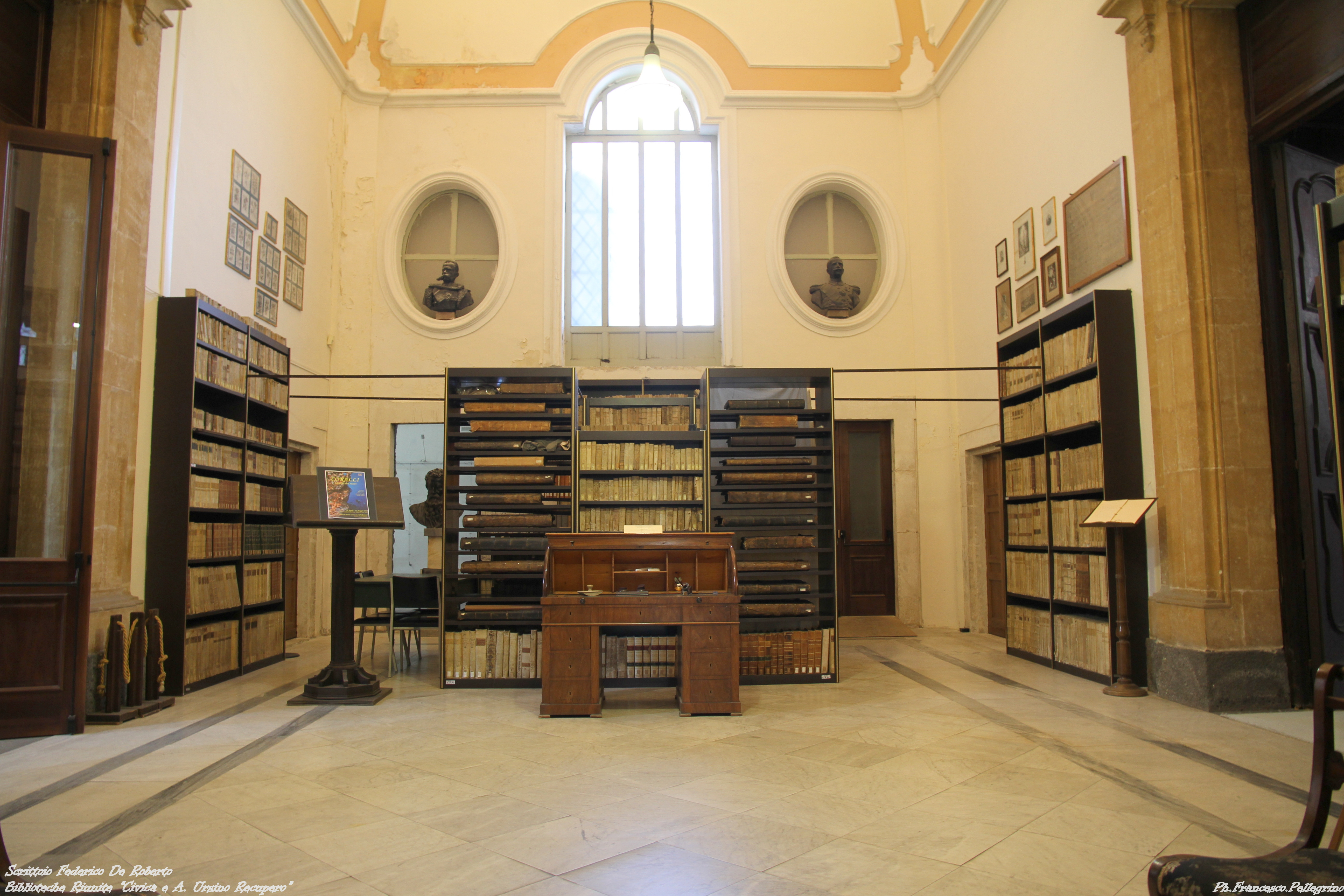 Sala Guttadauro - Scrittoio Federico De Roberto